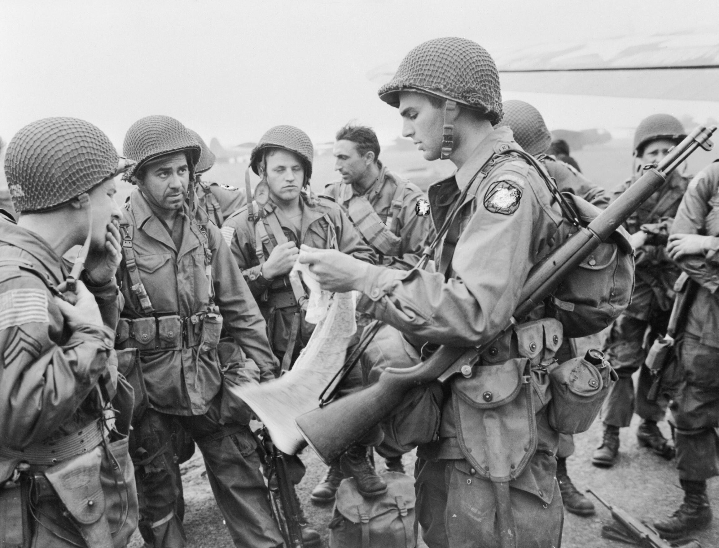 Operation 'market Garden' (the Battle For Arnhem)- 17 - 25 September 1944 17 September 1944: Six American paratroopers of the First Allied Airborne Army receive a final briefing from their commanding officer before emplaning.